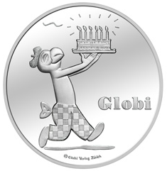 Swiss commemorative coin 2012 CHF 20, second edition obverse